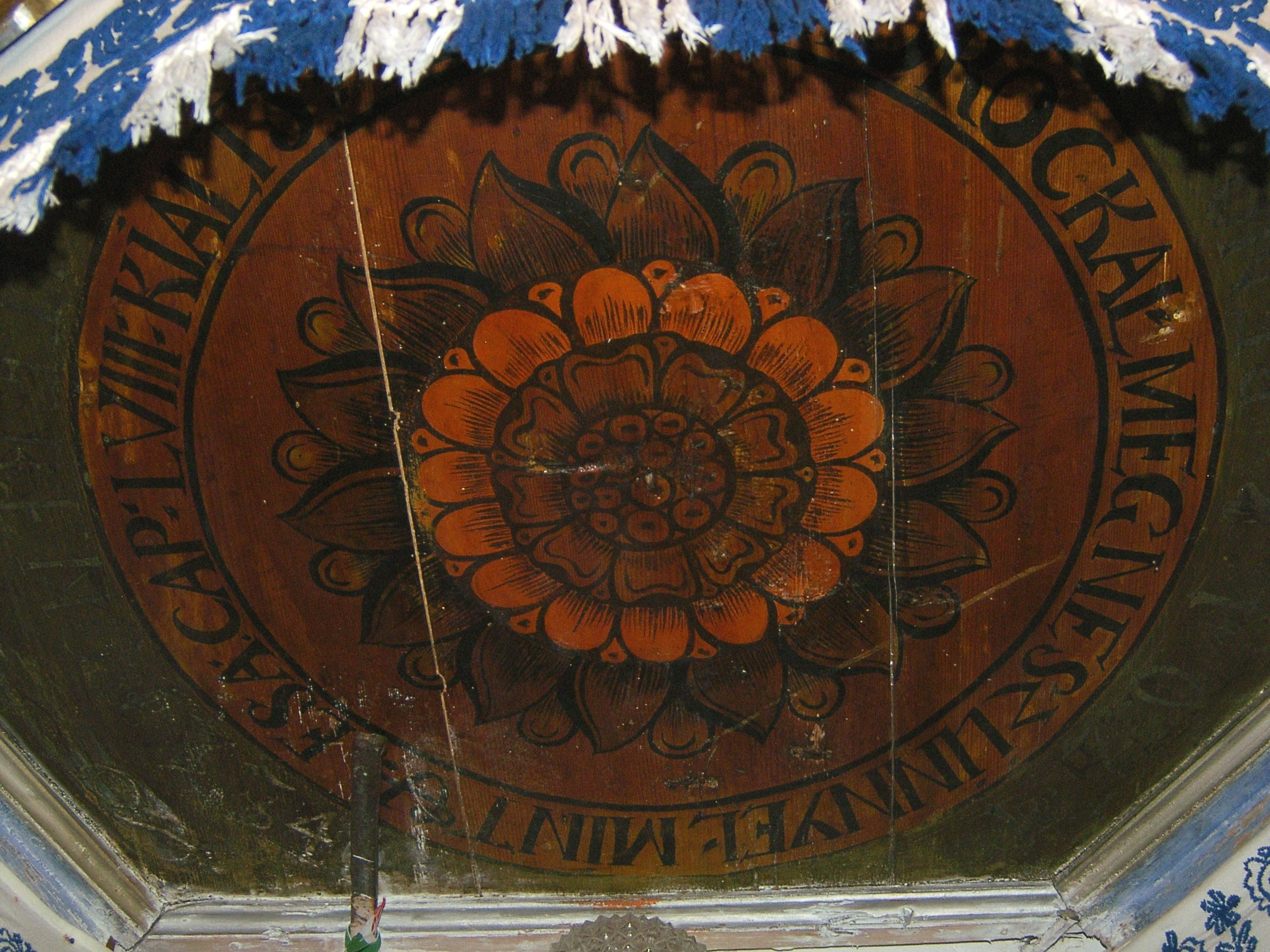 Rooftop of the pulpit, reformed church of Domoşu (hu. Kalotadámos), Transylvania